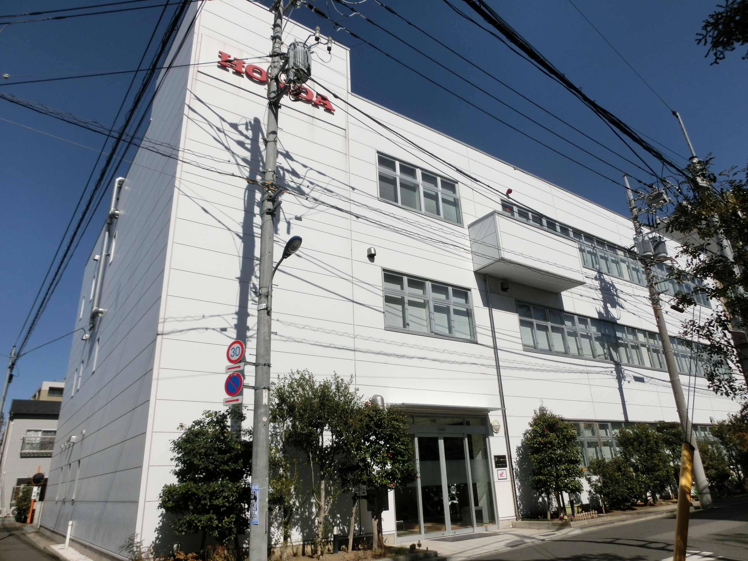 Honda Motorcycle Japan Head Office